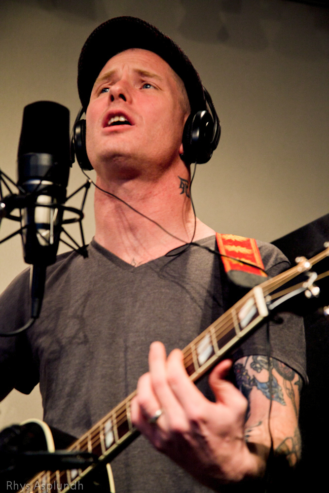 Corey Taylor performing acoustically in May 2011 on 93.3 WMMR.